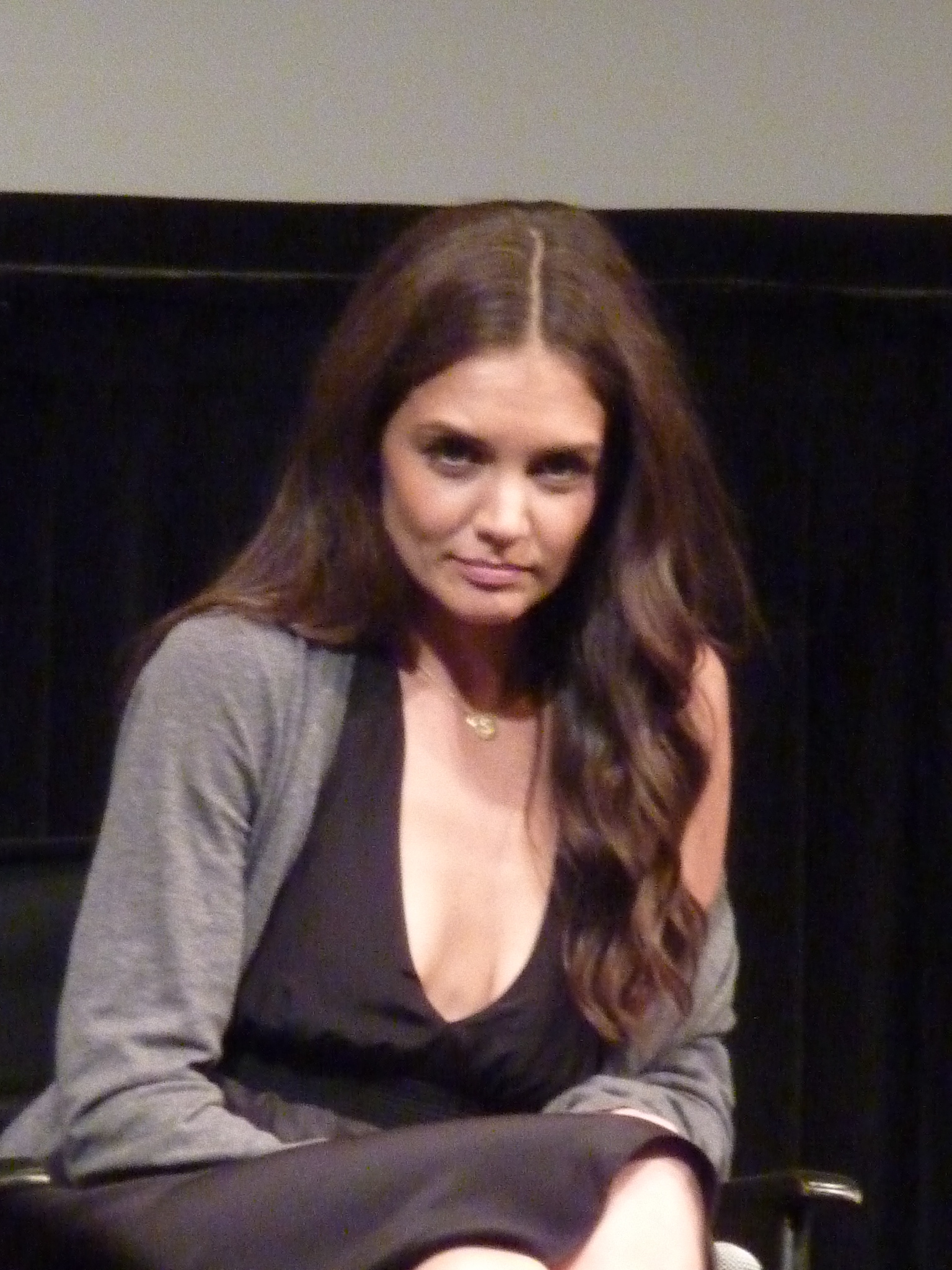 Katie Holmes Movie 2011